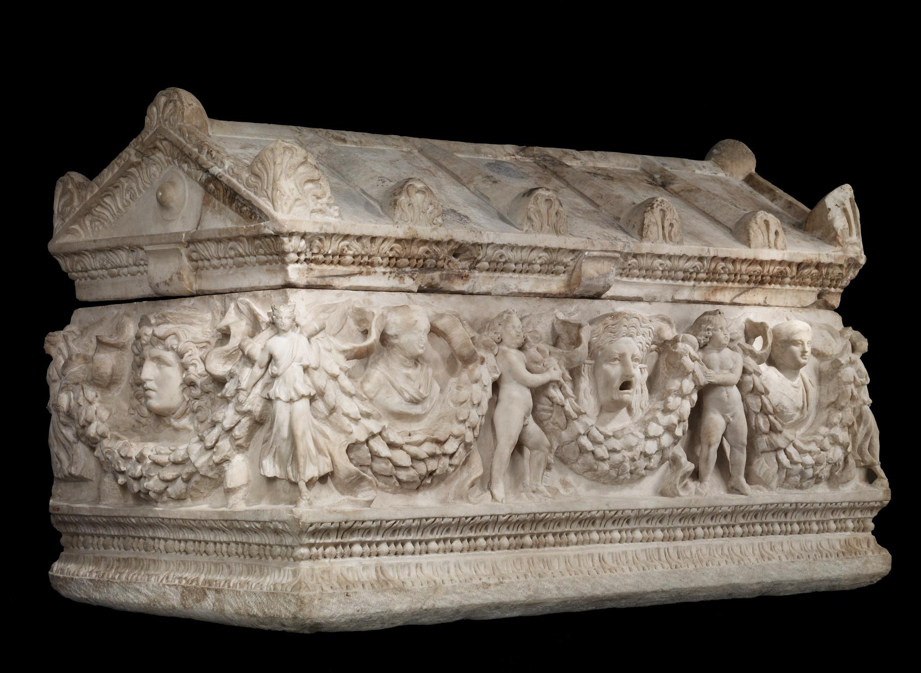 Unlike many sarcophagi, this one is carved on all four sides in high relief. Garlands held by winged goddesses or personifications on the corners and Eros (Cupid) figures on the sides support the busts of a crowned deity (left) and a young girl (right). The sarcophagus was probably intended for her. In the center, on both the front and back, is a theatrical mask-on this side Tragedy, on the other, Comedy. Medusa heads decorate the ends. The lid takes the form of a temple roof with a pediment (triangular gable) at each end. This sarcophagus can be traced to a particular workshop active near the ancient quarry of Dokimeion in Phrygia in Asia Minor. Its discovery in Rome illustrates the long-distance trade in even very large, heavy luxury goods that took place at the height of the Roman Empire.